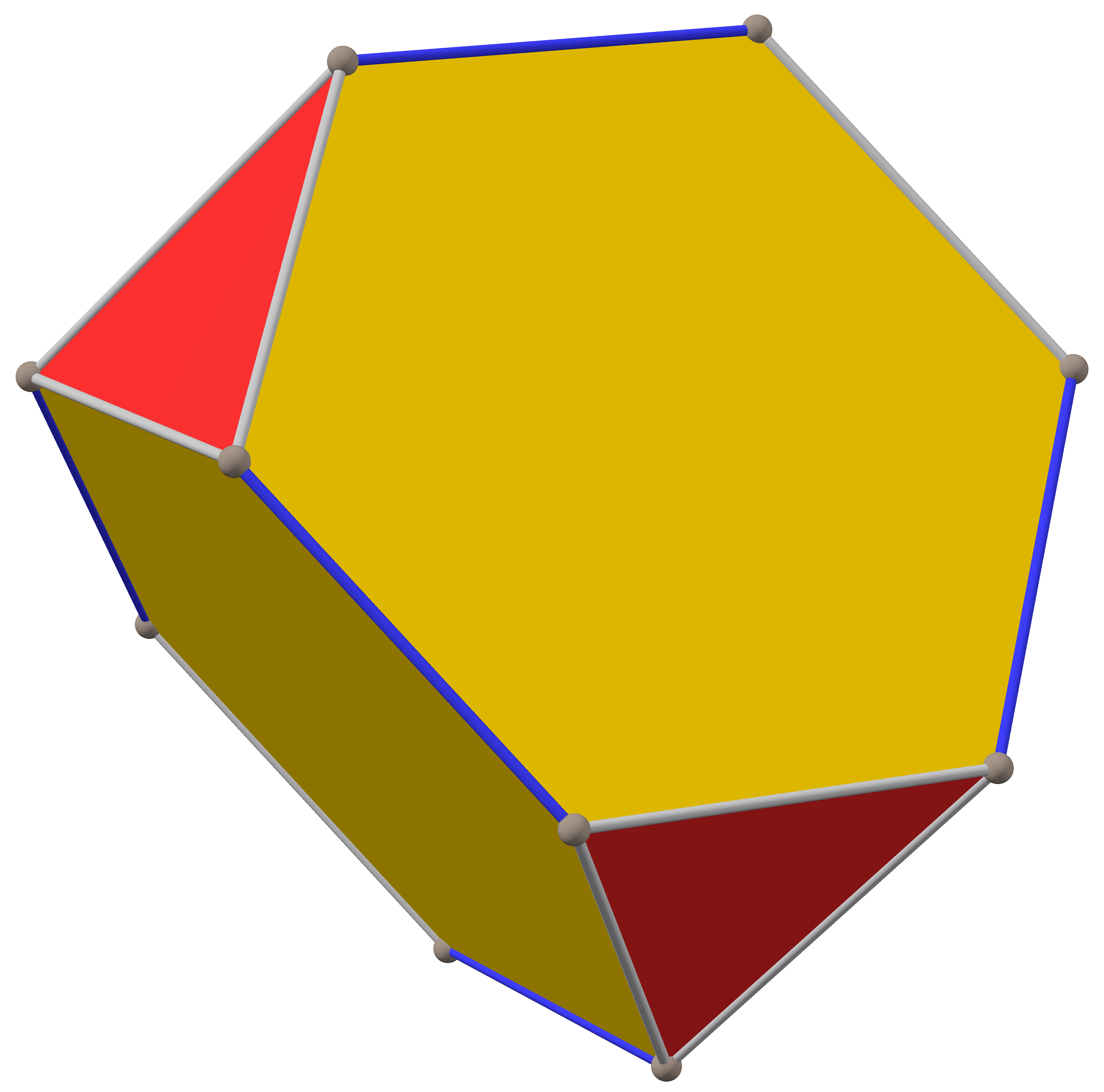 Image set Platonic, Archimedean and Catalan solids with direction colors Part of Polyhedra with direction colors (image set) This polyhedron has a form of tetrahedral symmetry. There are 6 blue elements. This set contains renderings of Platonic, Archimedean and Catalan solids. For most of them the sphere shown on the right is the polyhedrons midsphere. The geometric properties of these images have been calculated with Python, and they have been rendered with POV-Ray. The source code used can be found on GitHub. The POV-Ray sources are in this folder. This image was created with POV-Ray. This PNG graphic was created with Python. The images in this set have consistent sizes and angles. Please do not overwrite them. If this image has a margin, there is probably a variant without it — or it can be uploaded. (Filename with " max" at the end.)